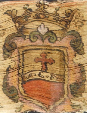 Coat of arms of the Banco della Santissima Annuziata in Naples, founded in 1587. In 1794, it was amalgamated along with all the other public banks in Naples into the Banco Nazionale di Napoli. According to the Museo del Marchio Italiano where the coats of arms of the pre-1794 banks are displayed, the images are taken from the pages of the banks' account books.